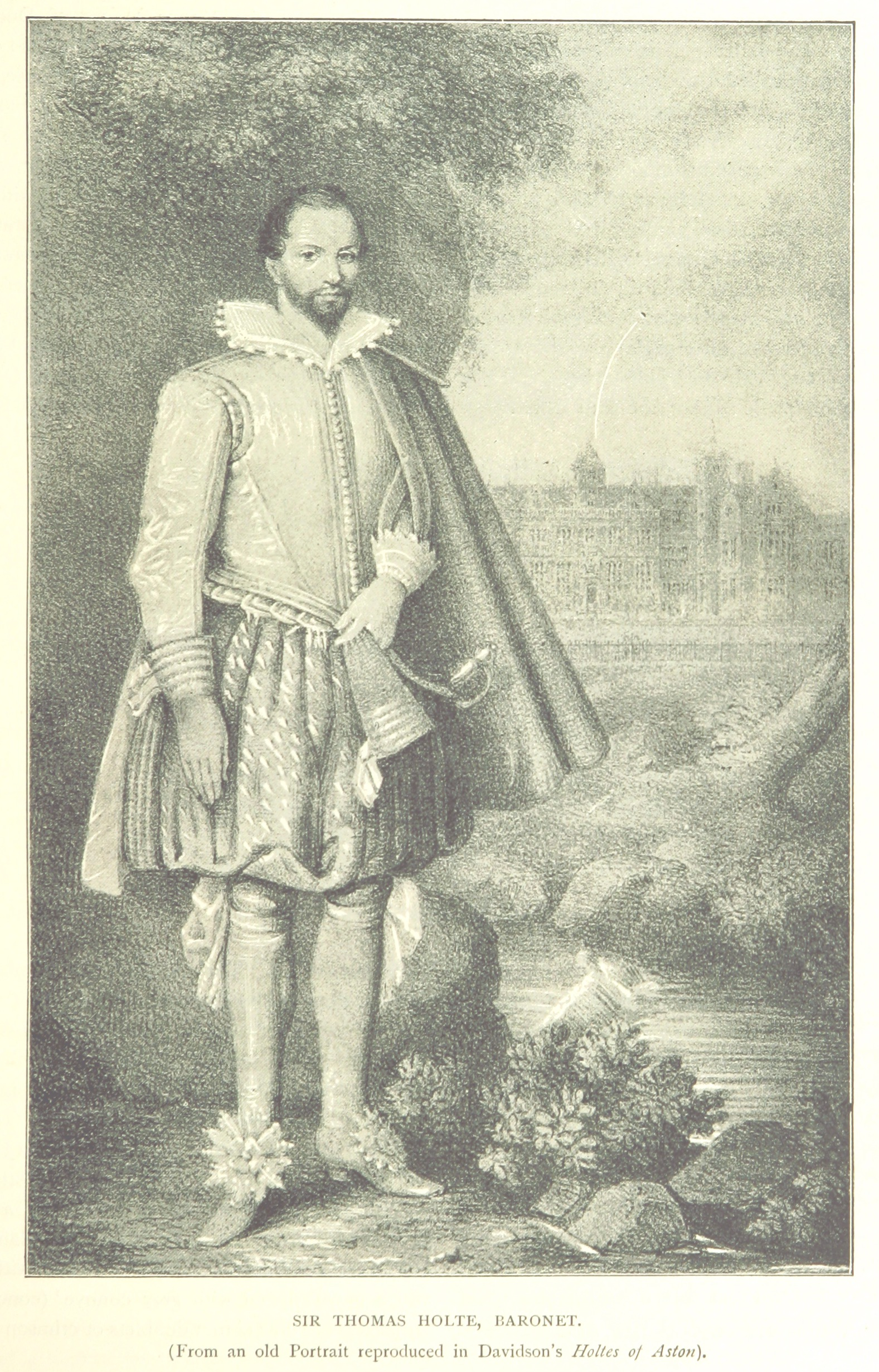 Sir Thomas Holte, Baronet and Aston Hall. Page 27 (BL page 49).